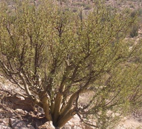 Elephant tree (Bursera microphylla) in the Sonoran Desert at Organ Pipe Cactus National Monument, U.S.